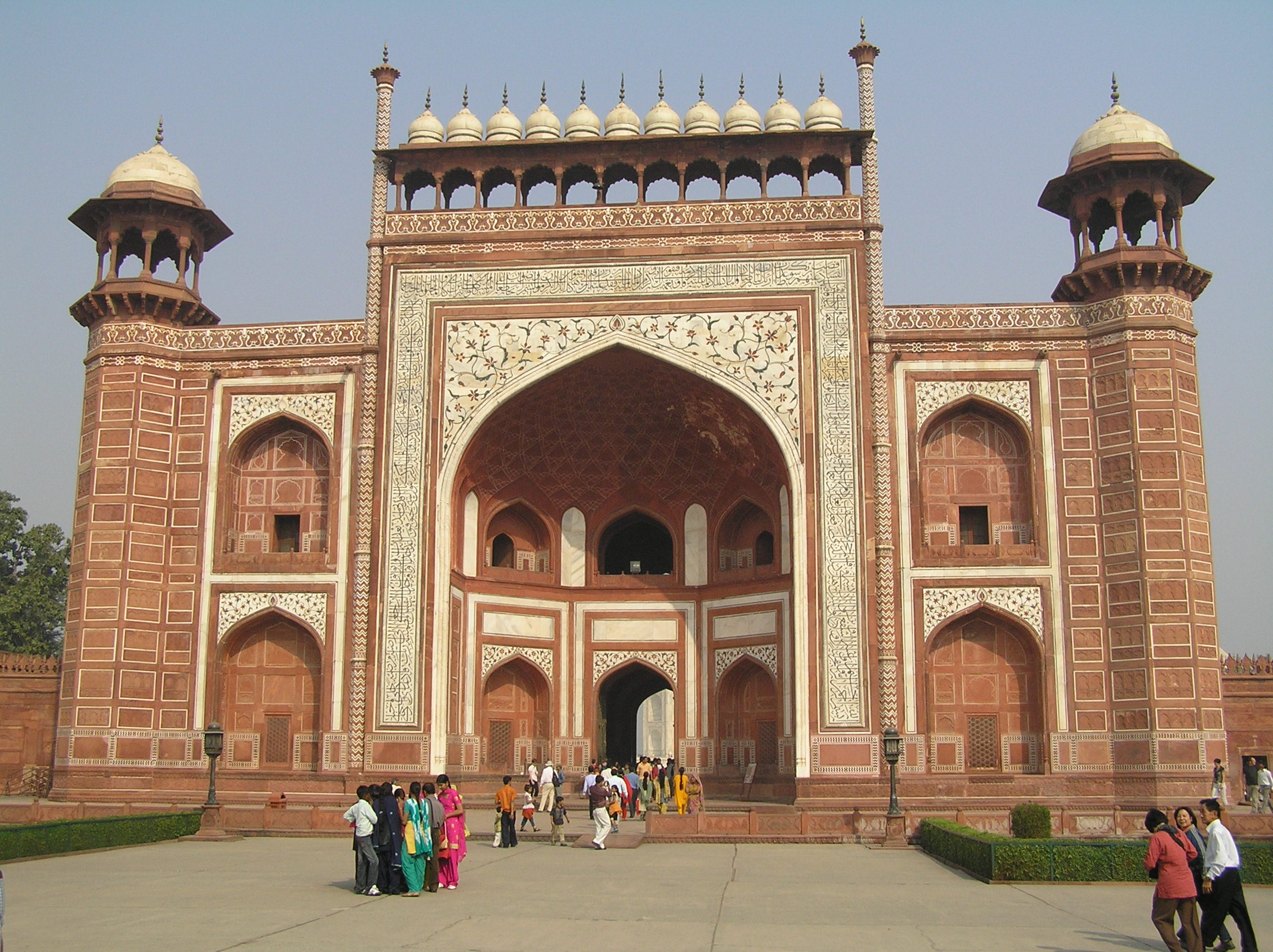 Gate leading to Taj Mahal